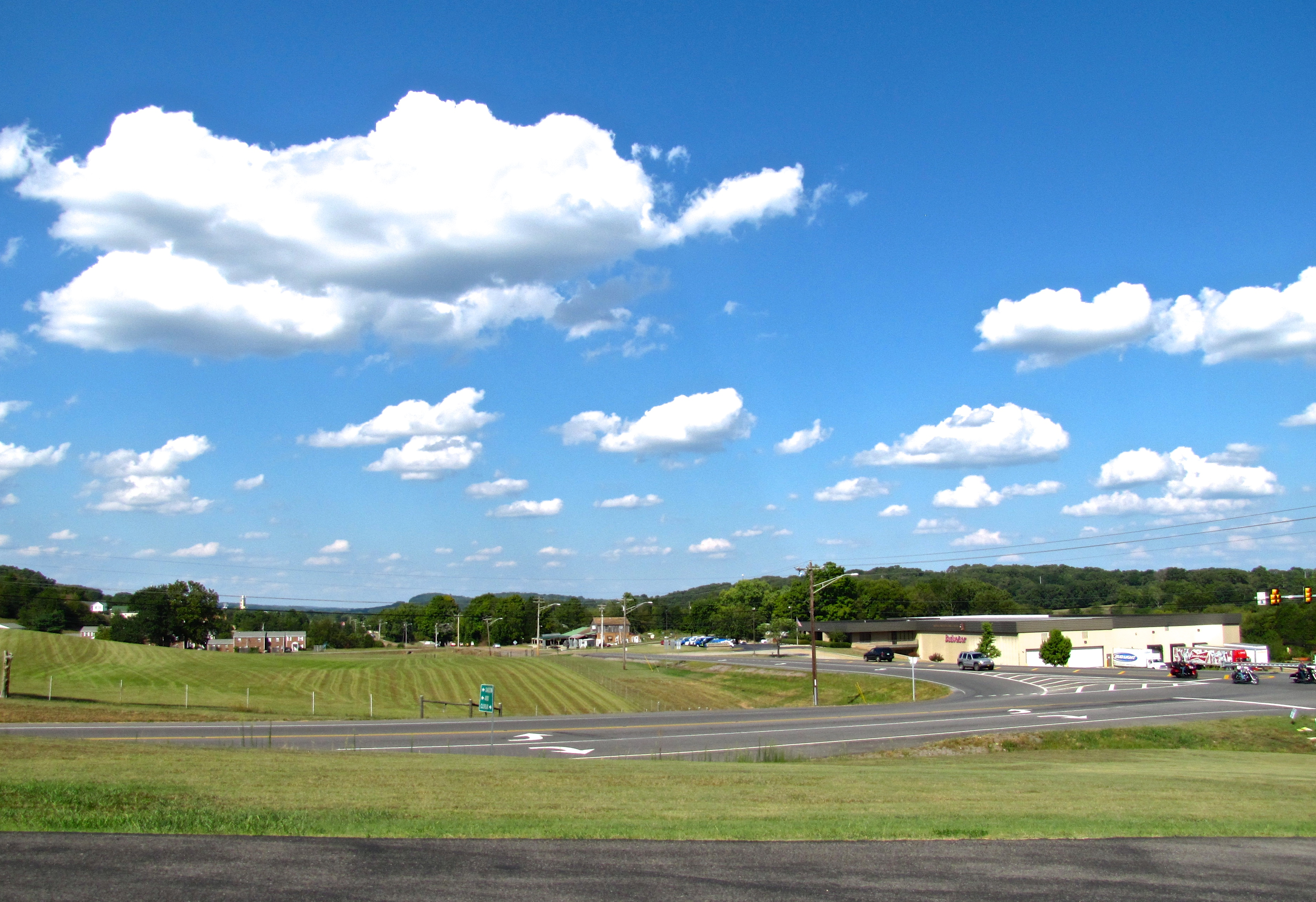 View across the intersection of U.S. Route 11 (right) and State Route 308 in Charleston, Tennessee, United States.